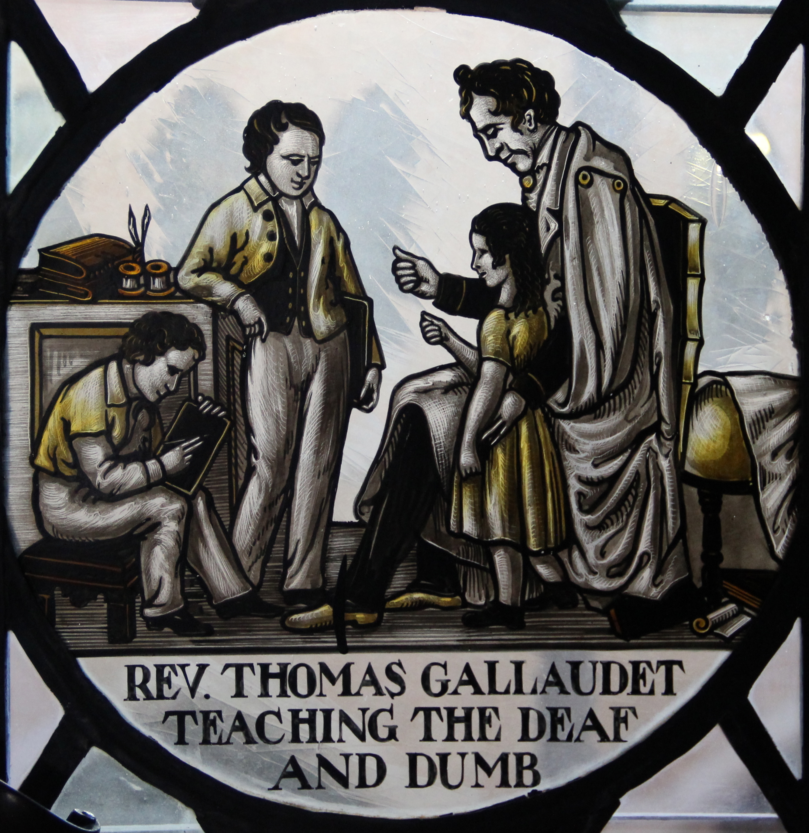 "Rev. Thomas Galludet Teaching the Deaf and Dumb," stained glass window by G. Owen Bonawit, Slavic Reading Room, Sterling Memorial Library, Yale University, c. 1930